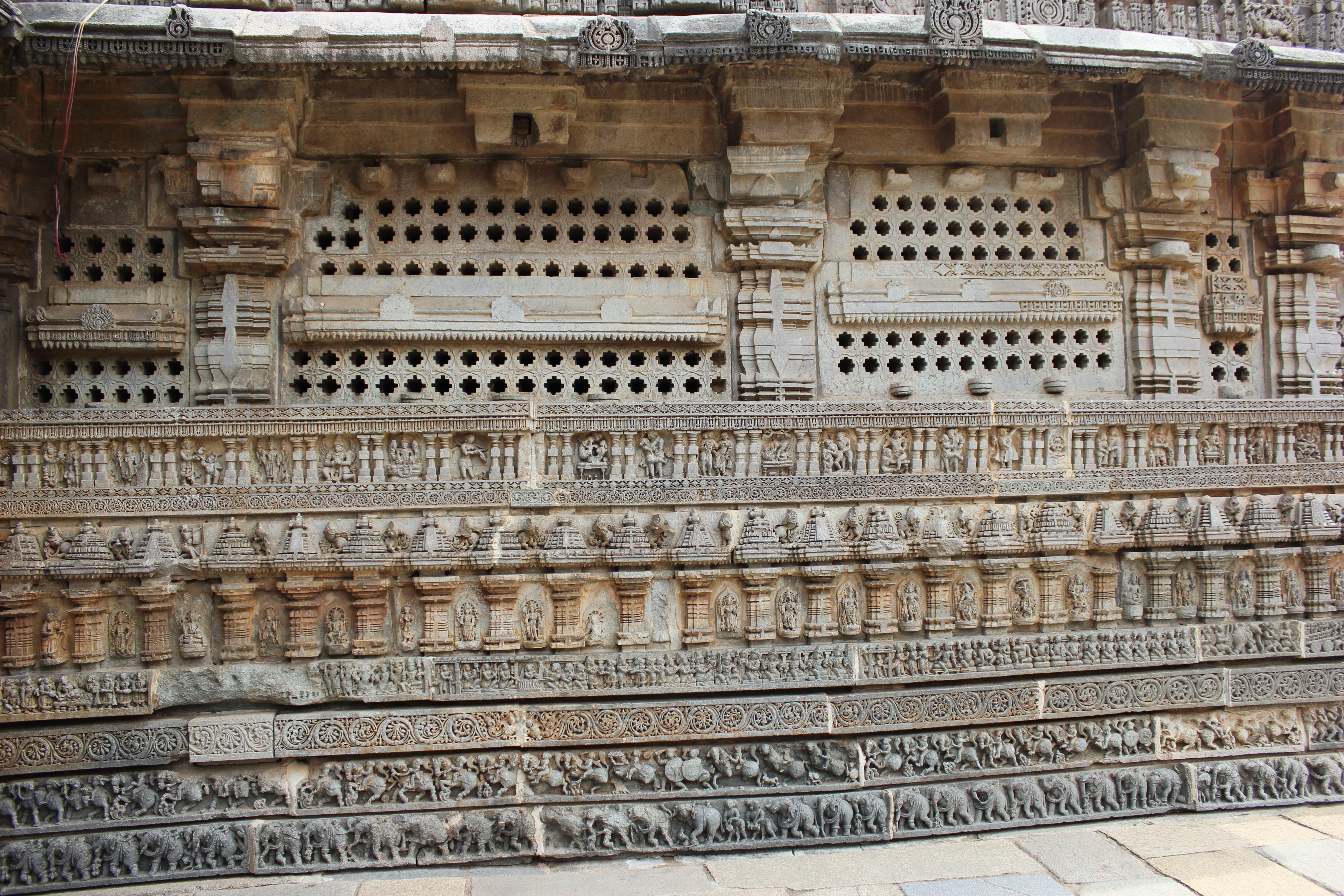 Photograph taken by self (Dinesh Kannambadi) at the Chennakeshava Temple (also called Keshava or Chennakesava) in Somanathapura, Karnataka state, India. The temple was built in 1268 C.E. under Hoysala king Narasimha III, when the Hoysala Empire was the major power in South India.